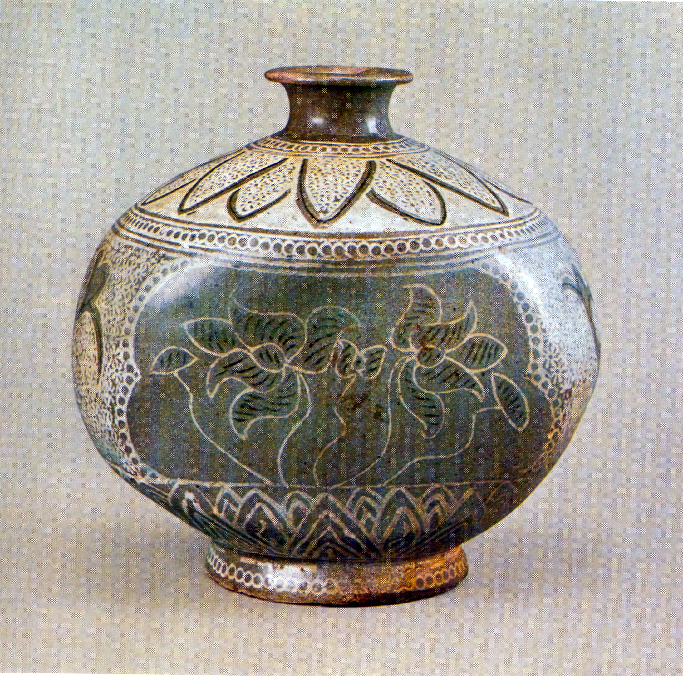 Buncheong Flat Bottle with Inlaid Lotus Design